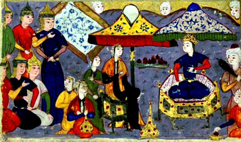 Habib Allah ibn 'Ali ibn Husam - Alexander the Great in Nushabah-s Pavilion in Barda' - Walters W608269A